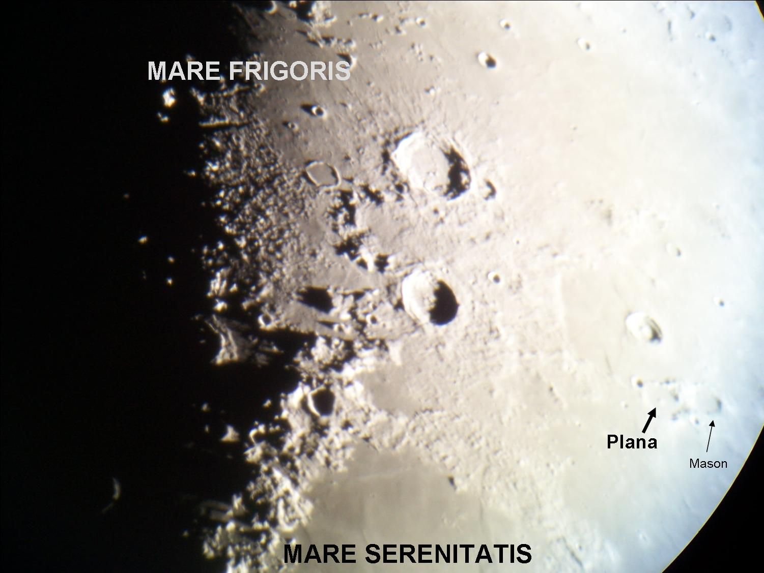 Crater Plana photographed by Eric S. Kounce of the West Texas Astronomers ( on October 28, 2006 from the McDonald Observatory's 36-Inch Telescope.